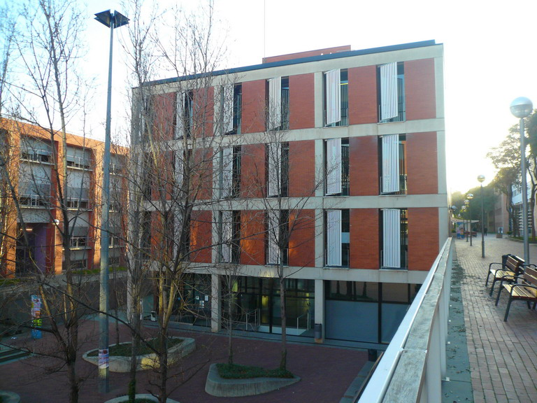 Campus Nord of Universitat Politècnica de Catalunya, Barcelona.